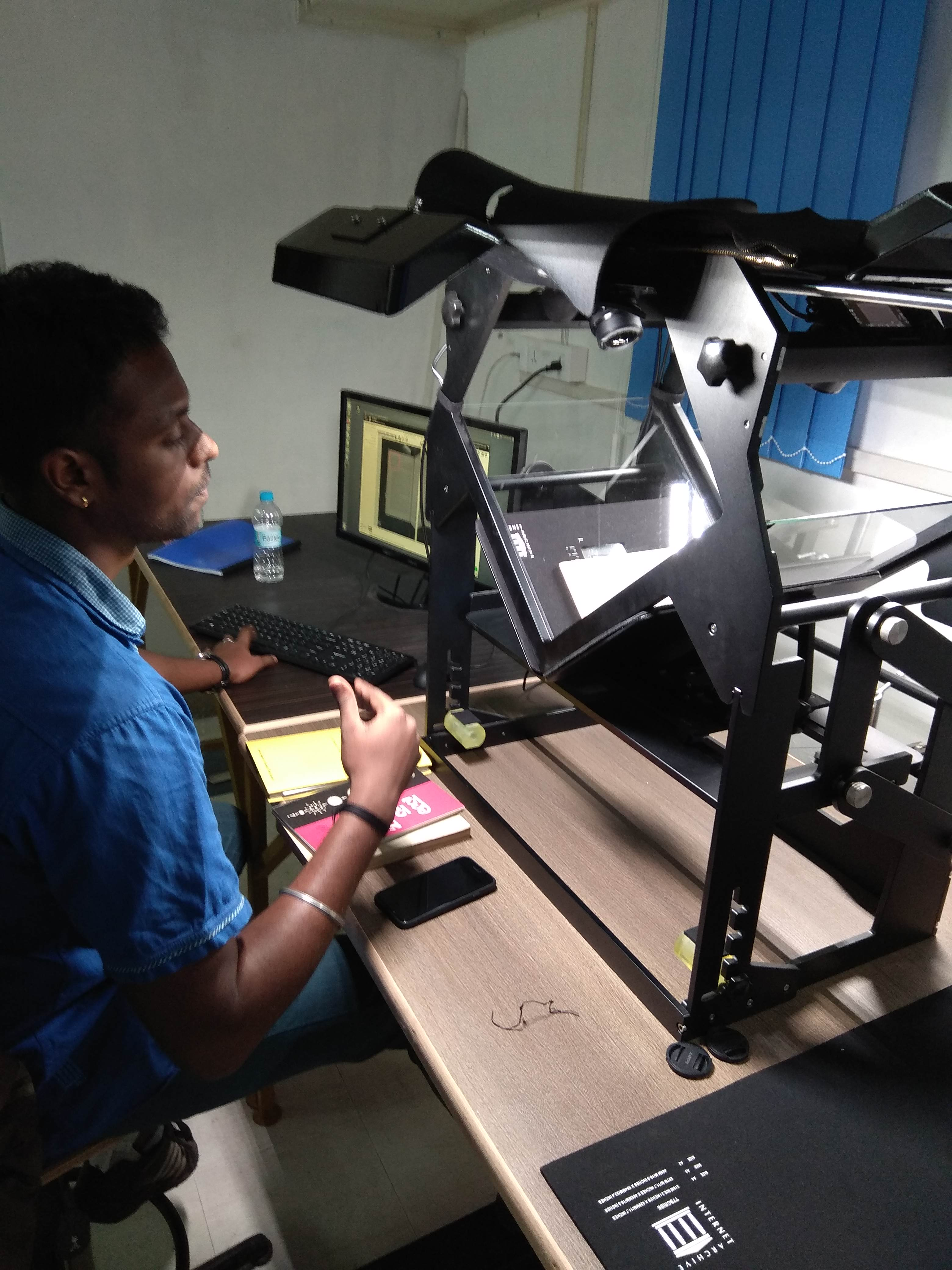 TTScribe book scanner setup at Indian Academy of Sciences, Bangalore